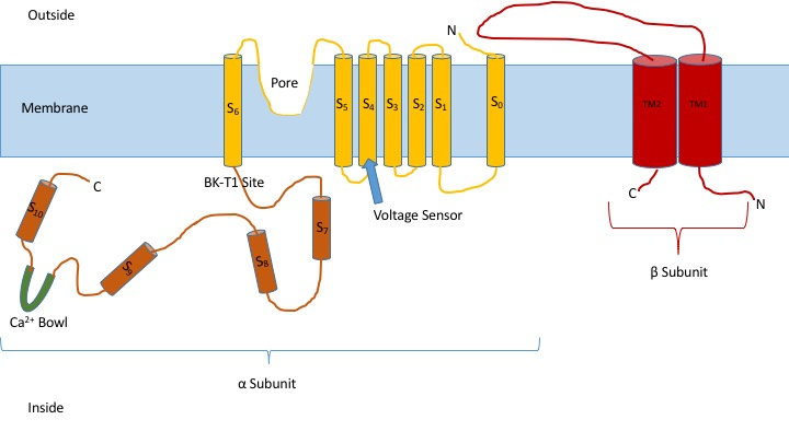 This is a simple diagram of the structure of the Large Conductance Calcium Activated Potassium Channel (BK).